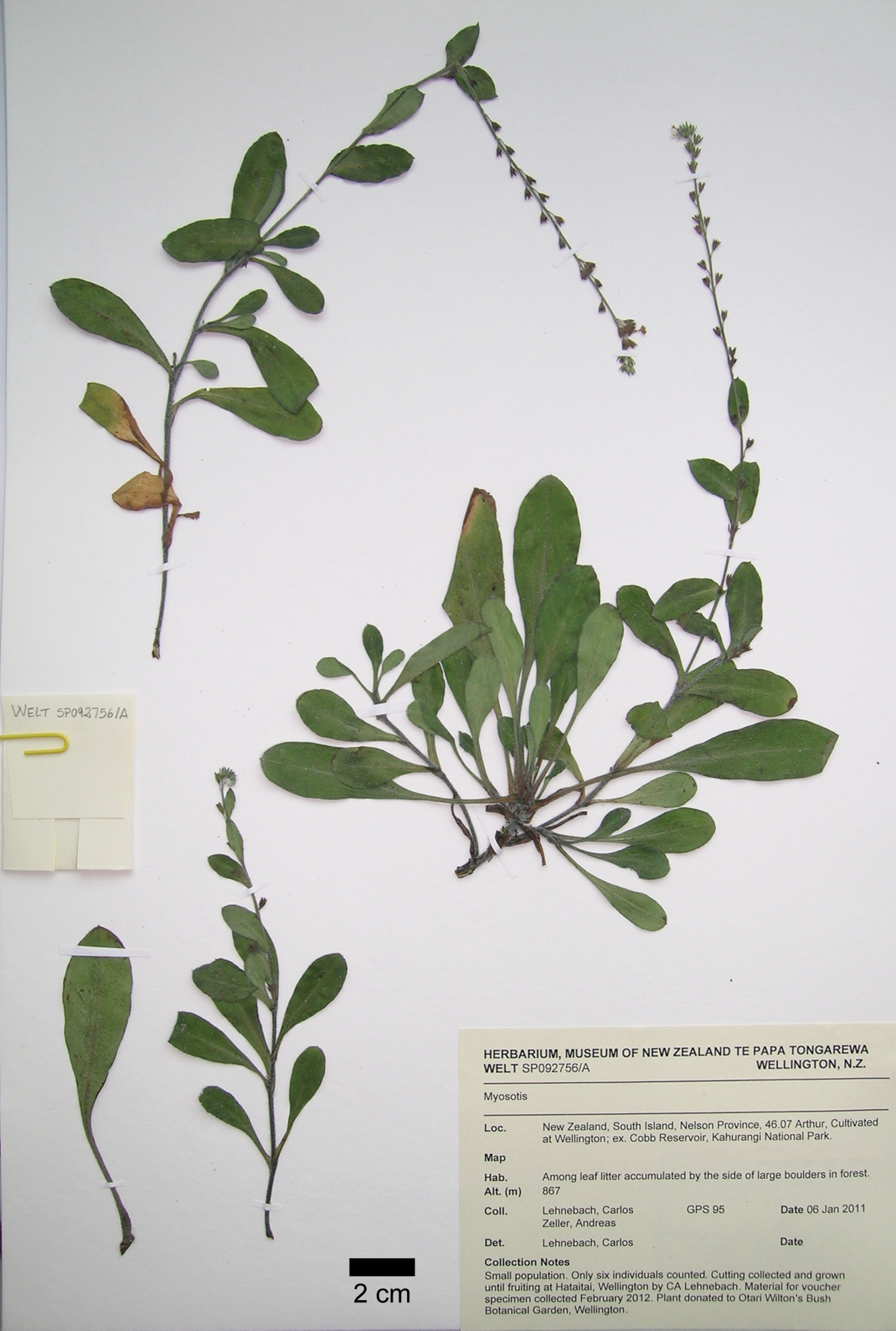 Photograph of the holotype of Myosotis mooreana C.A. Lehnebach. (C.A.Lehnebach & A.Zeller s.n., WELT SP092756/A).